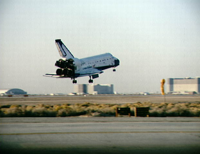 Space Shuttle Columbia is about to touch down on the runway at Edwards Air Force Base in California. The main landing gear of Columbia stirs up dust on the runway as it begins to touchdown